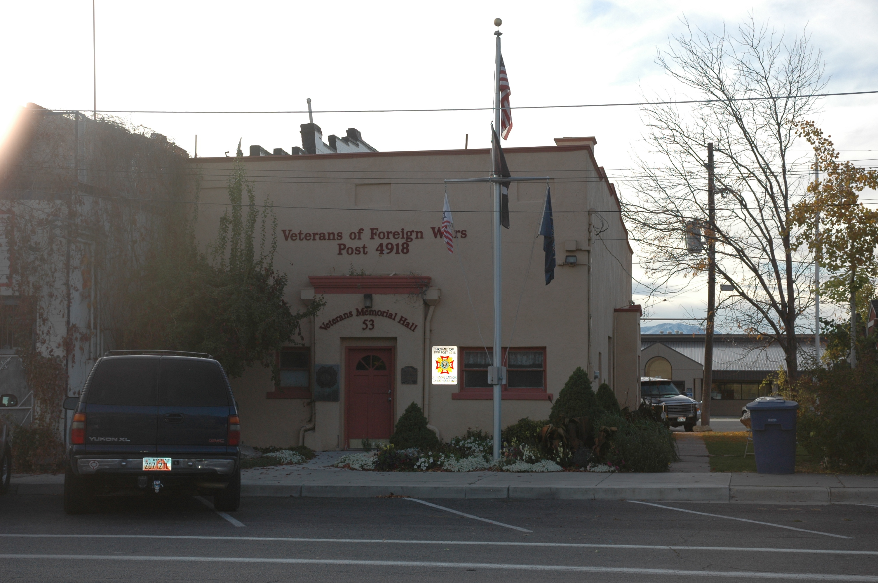 The Veterans Memorial Building, a historic building in American Fork, Utah, United States.